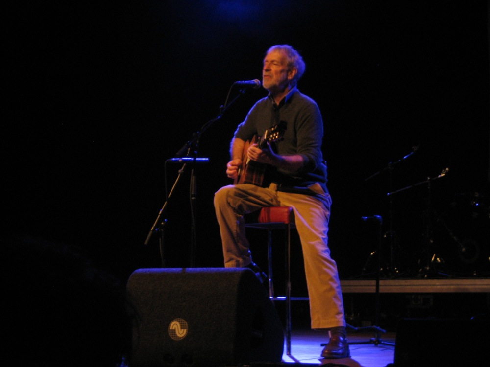 Jesse Winchester at the 2011 Blue Highways festival in Utrecht, The Netherlands